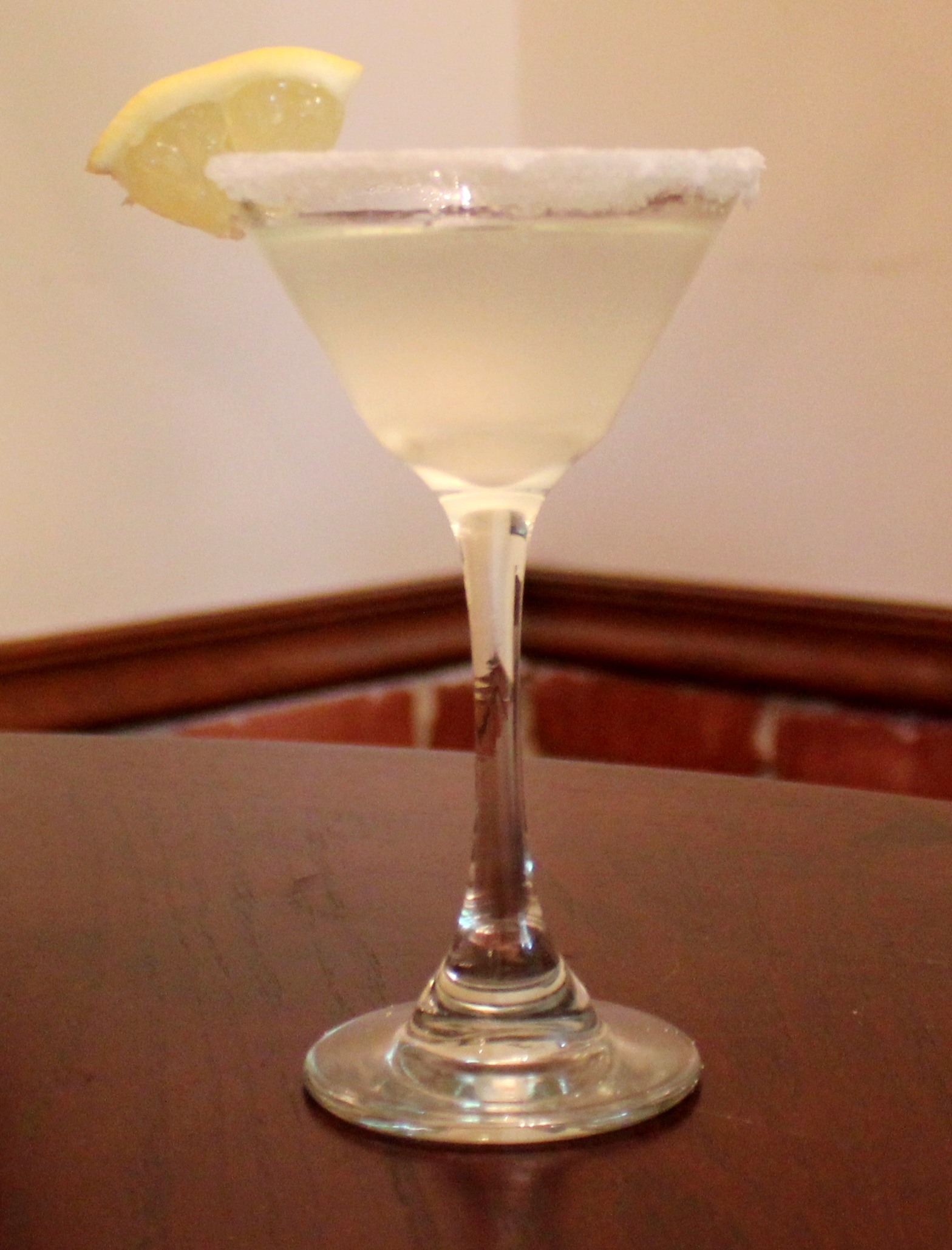 Lemon Drop cocktail